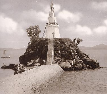 Chinnampo(Nampo) Lighthouse